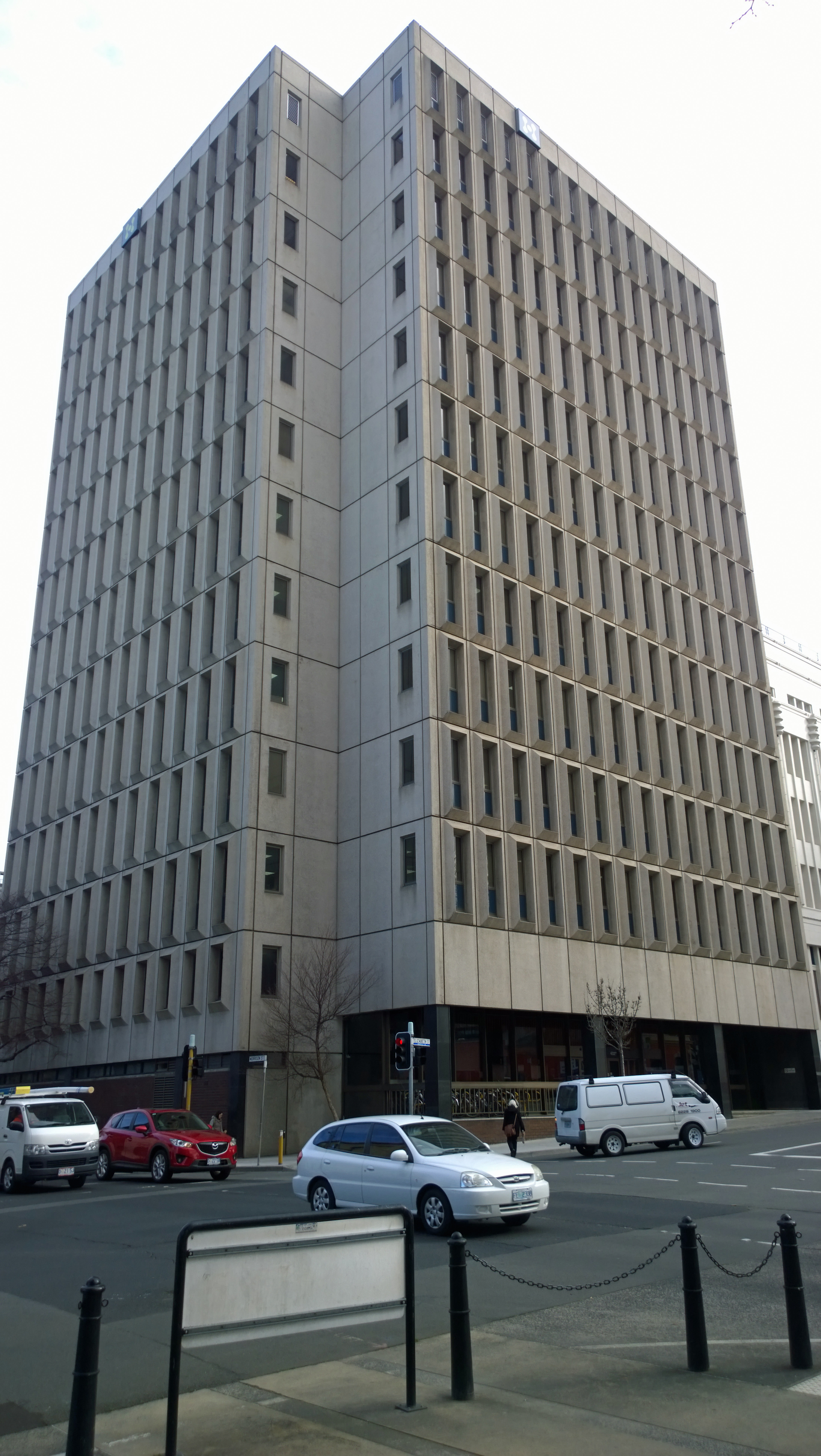 The Hydro Building in Hobart.